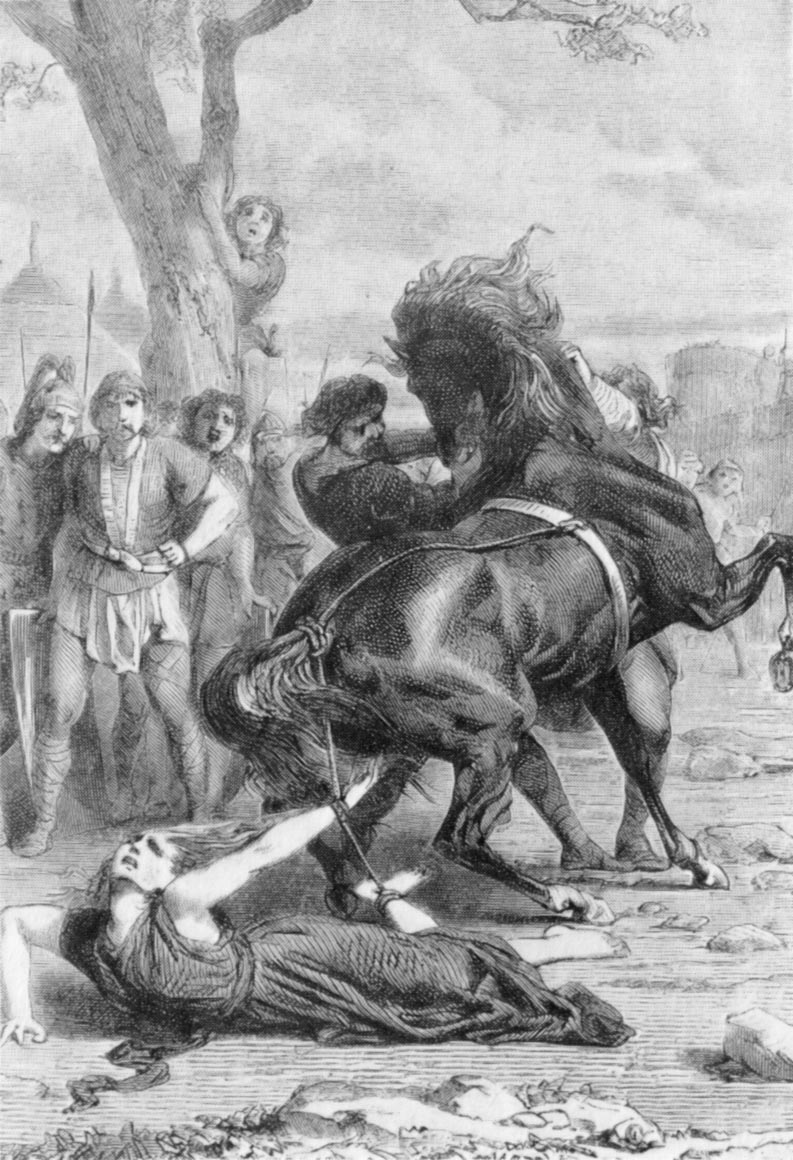 From German Wikipedia